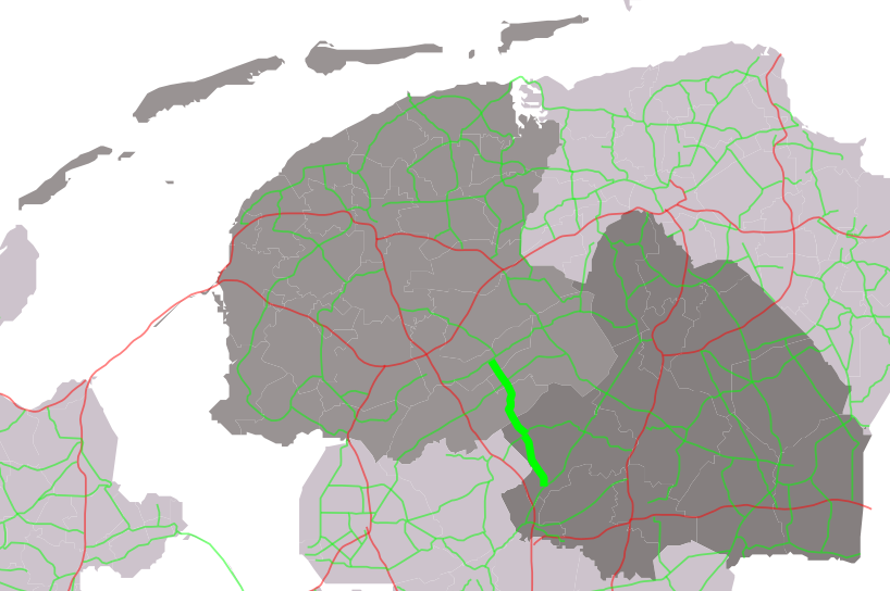 Map of Drenthe and Friesland with Dutch provincial road no. 353